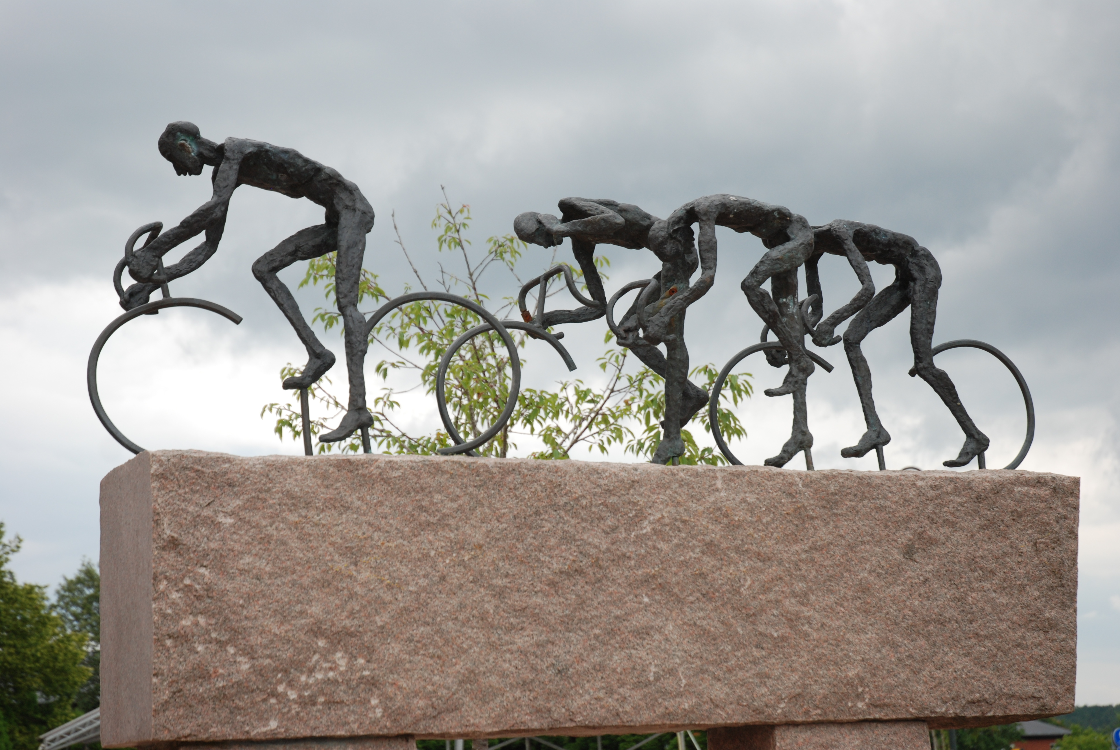 Sculpture by Bosse Anås of the Swedish cyclists and brothers Fåglum, at Murartorget in Vårgårda, Sweden